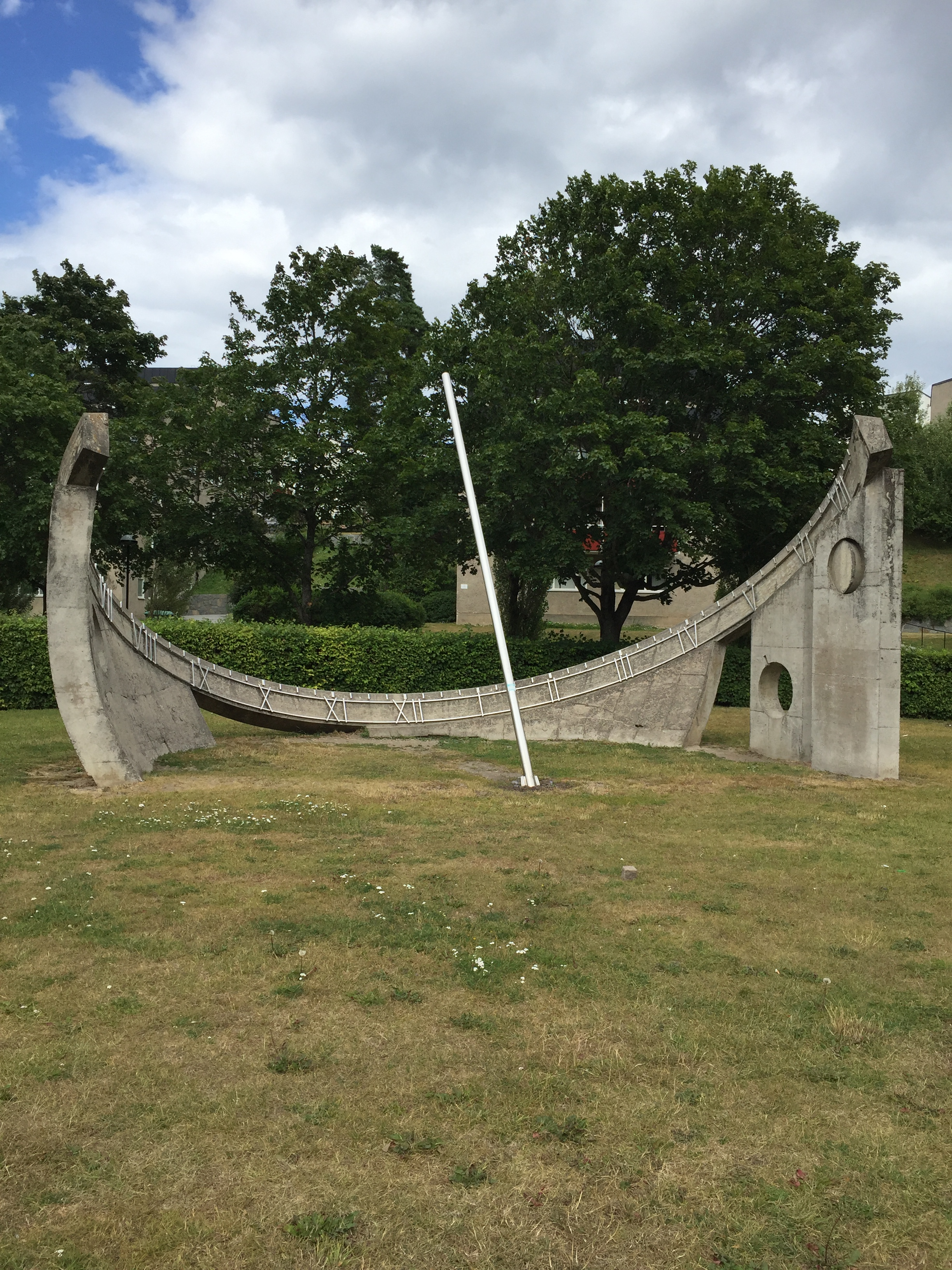 Sundial by Sven Holmström at Solursparken in Vällingby, Stockholm, Sweden, 2017